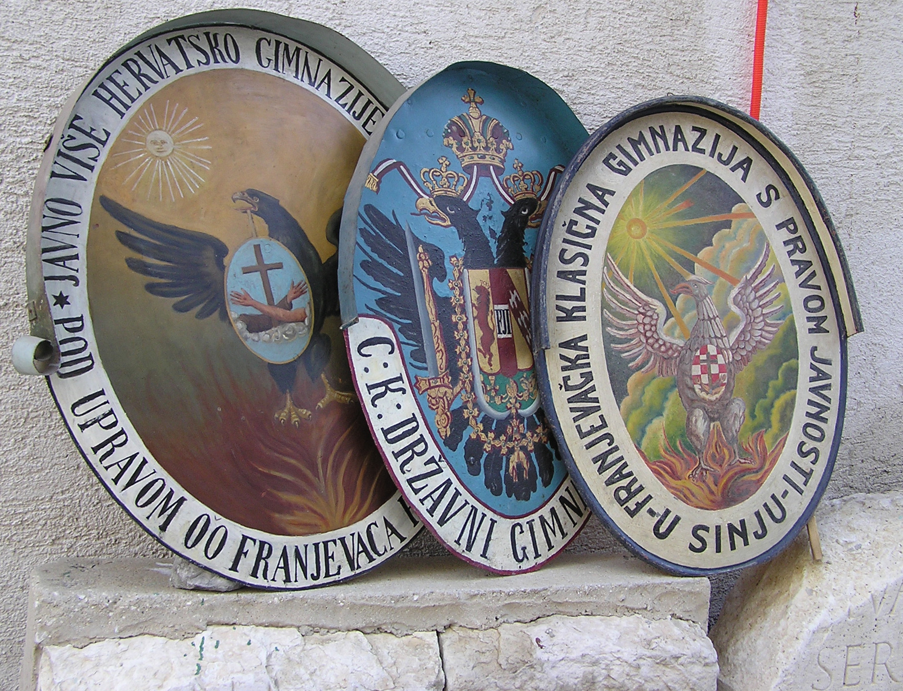 Emblem (Coat fo arms) of Franciscan Grammar School of Sinj